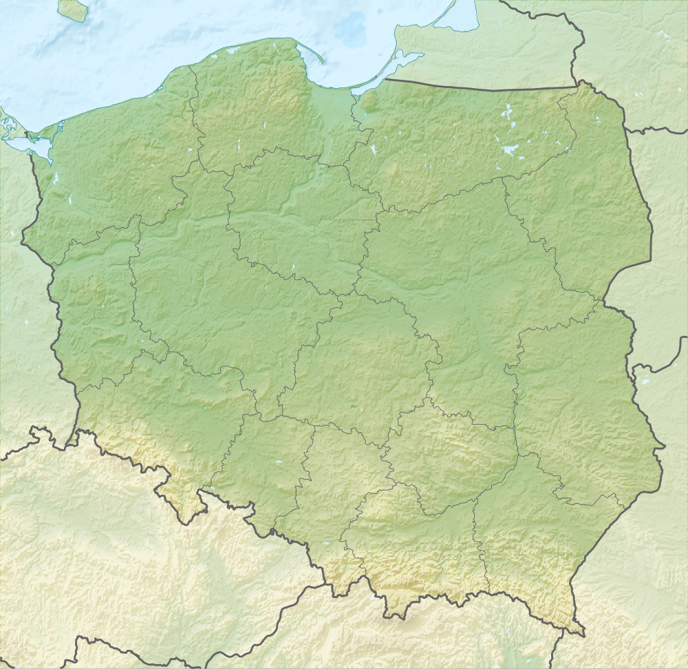 Relief map of Poland Equirectangular projection, N/S stretching 160 %. Geographic limits of the map: N: 55.2° N S: 48.7° N W: 13.8° E E: 24.5° E